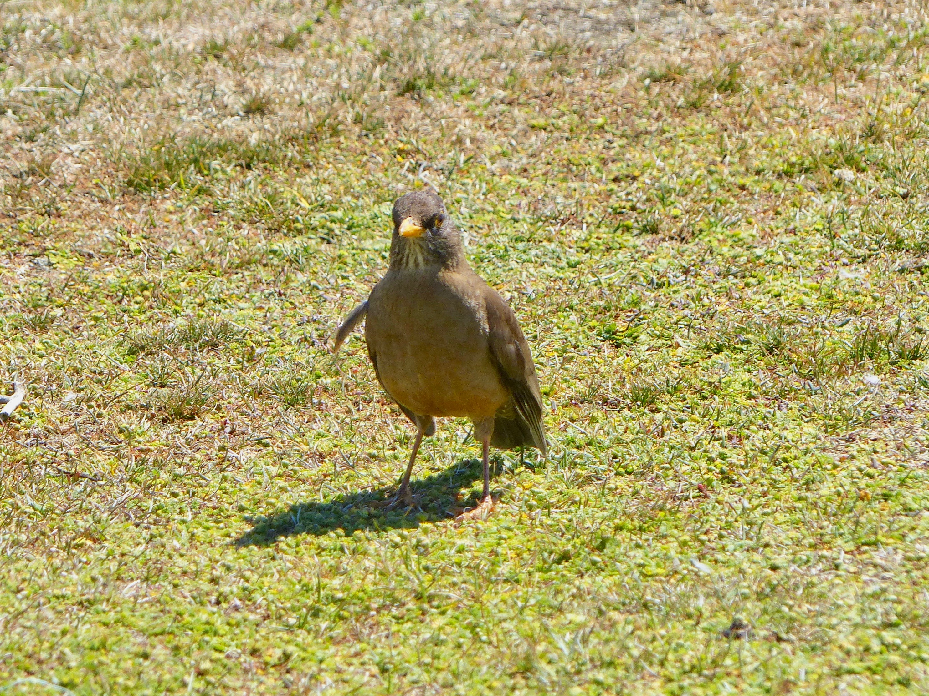 The nominate subspecies of the austral thrush (Turdus falcklandii), taken at Gypsy Cove, East Falkland.